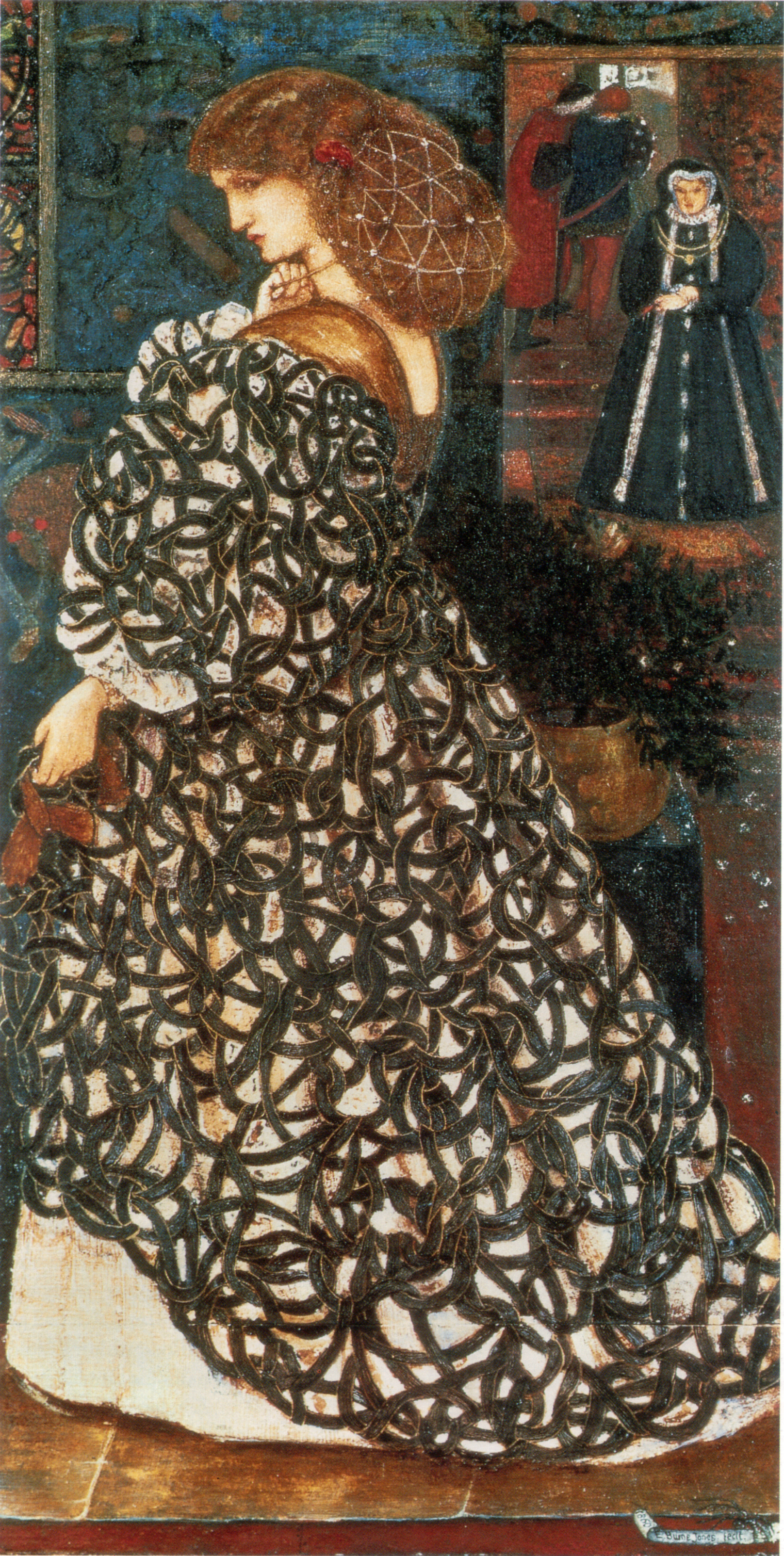 "Sidonia Von Bork", based on the 1849 gothic novel Sidonia the Sorcess by Lady Wilde, a translation of Sidonia Von Bork: Die Klosterhexe (1847) by Johann Wilhelm Meinhold. Watercolor with bodycolor, 13 x 6 3/4 in.